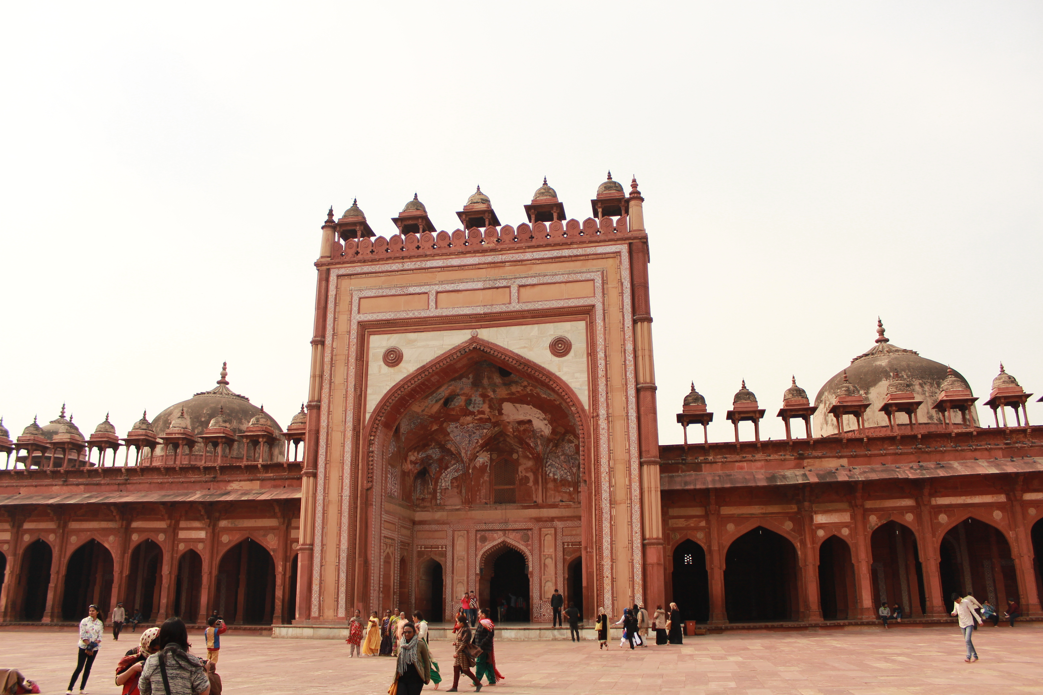 Jama Masjidin Fatehpur Sikri, India.